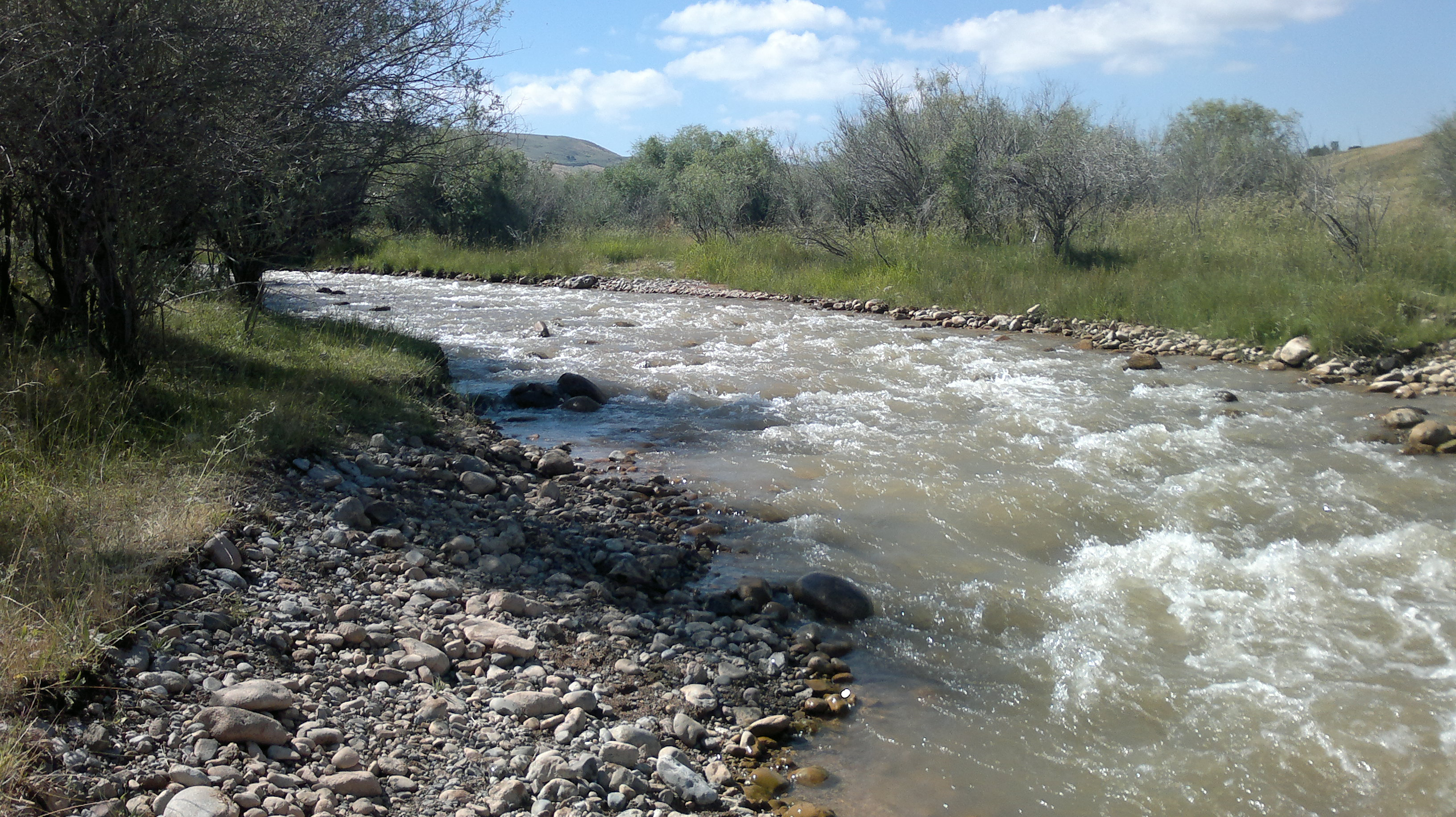 Верховья реки Бадам